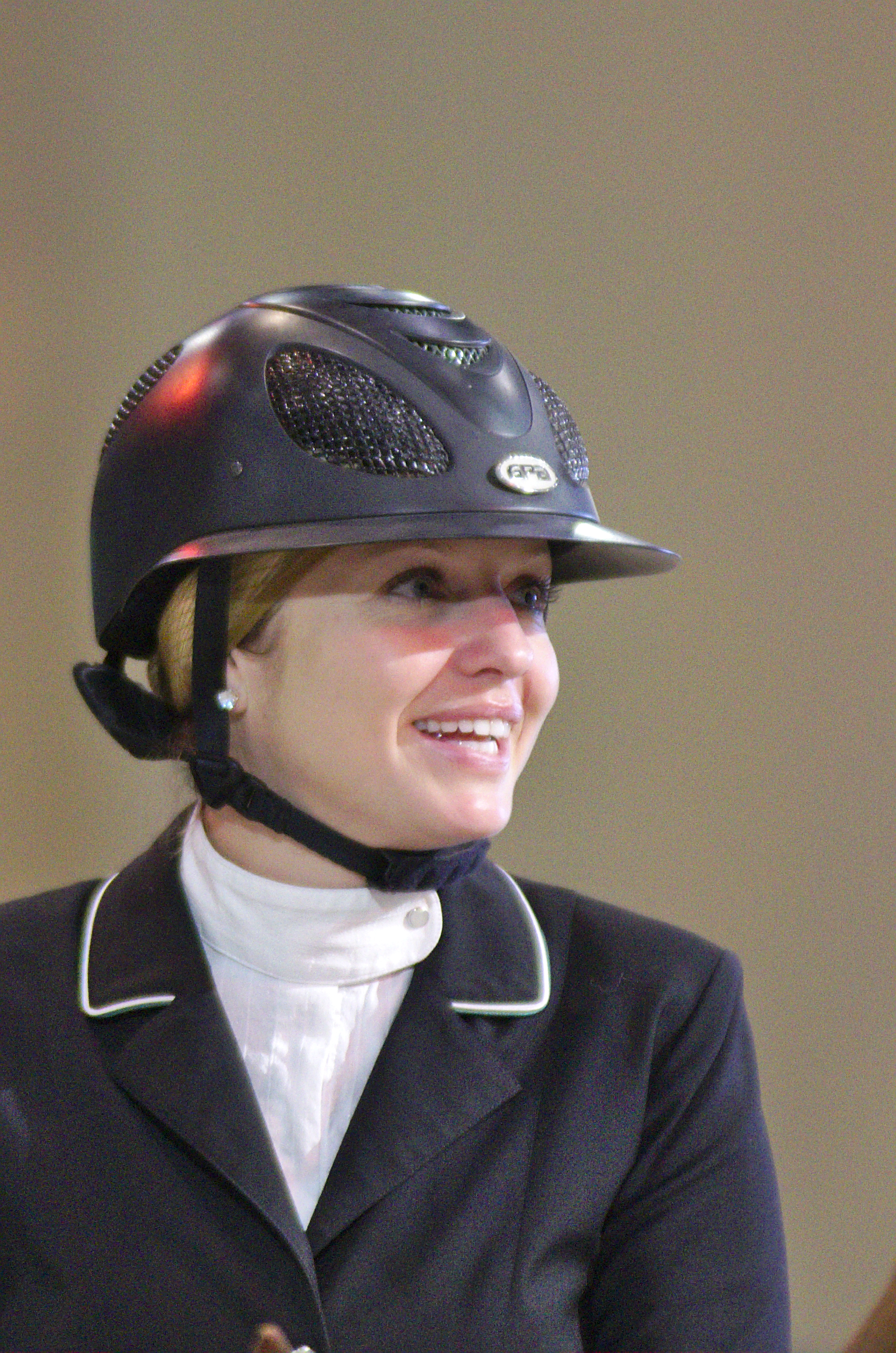 CHI Genève 2013 - 20131214 - Tiffany Foster